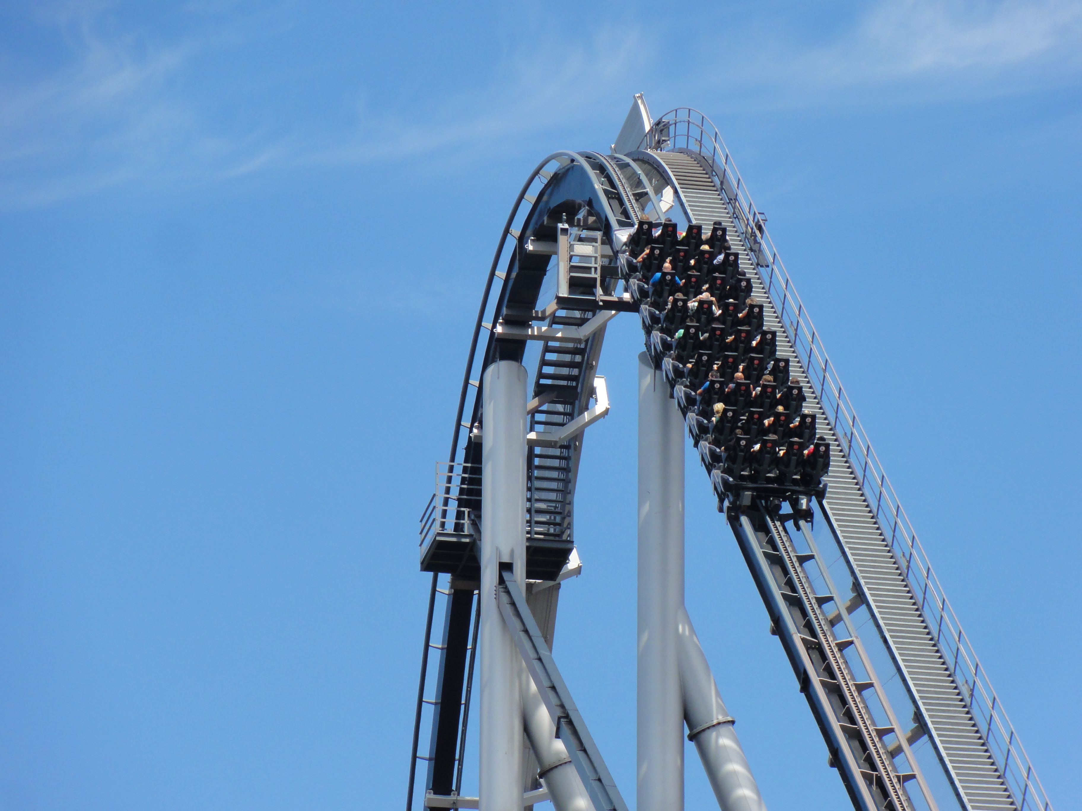 Silver Star, Europa-Park, Rust, Baden-Württemberg, Germany.